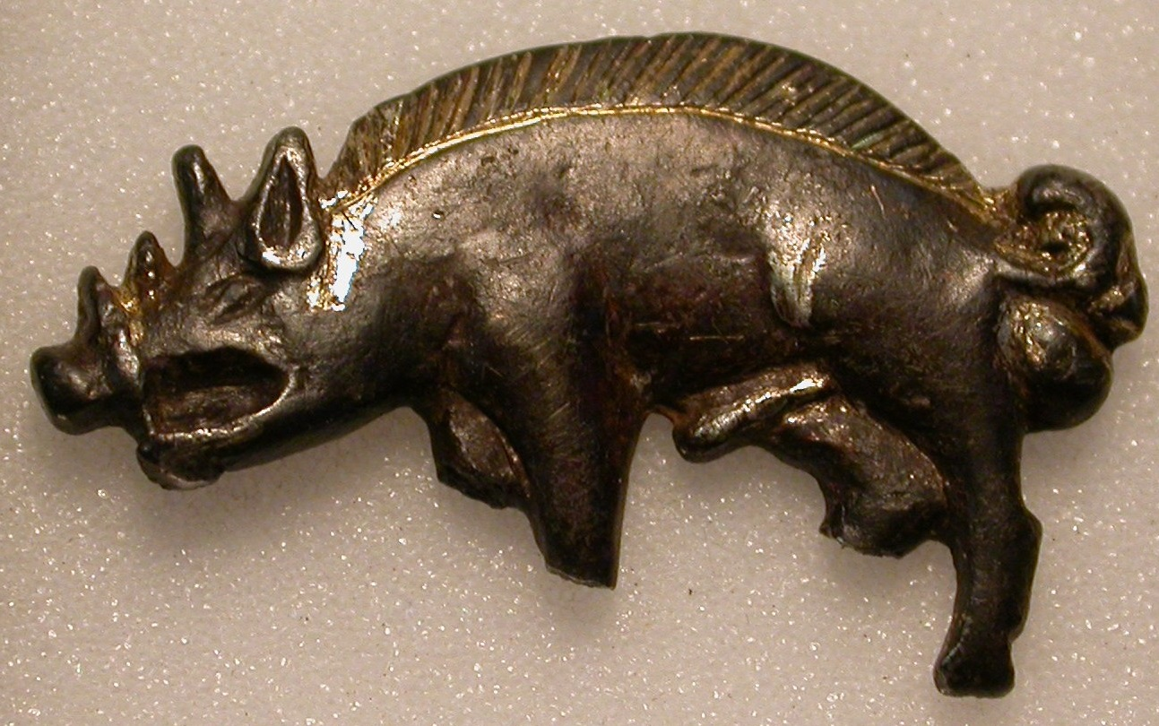 5: Boar Badge of Richard III from Bosworth Field